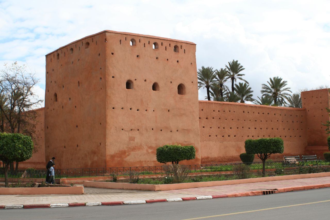 Medina of Marrakech